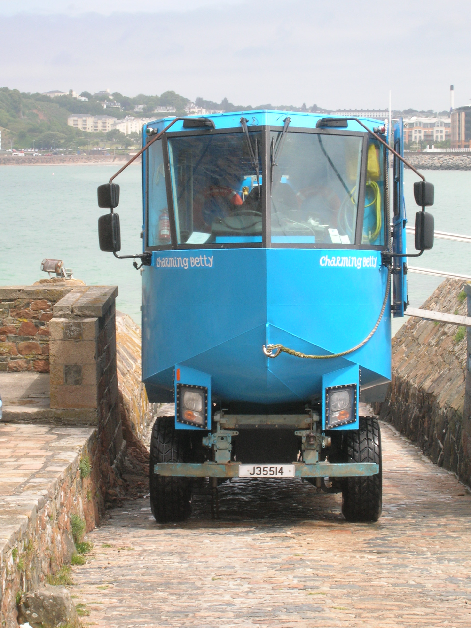 Amphibious vehicle at St Helier, Jersey